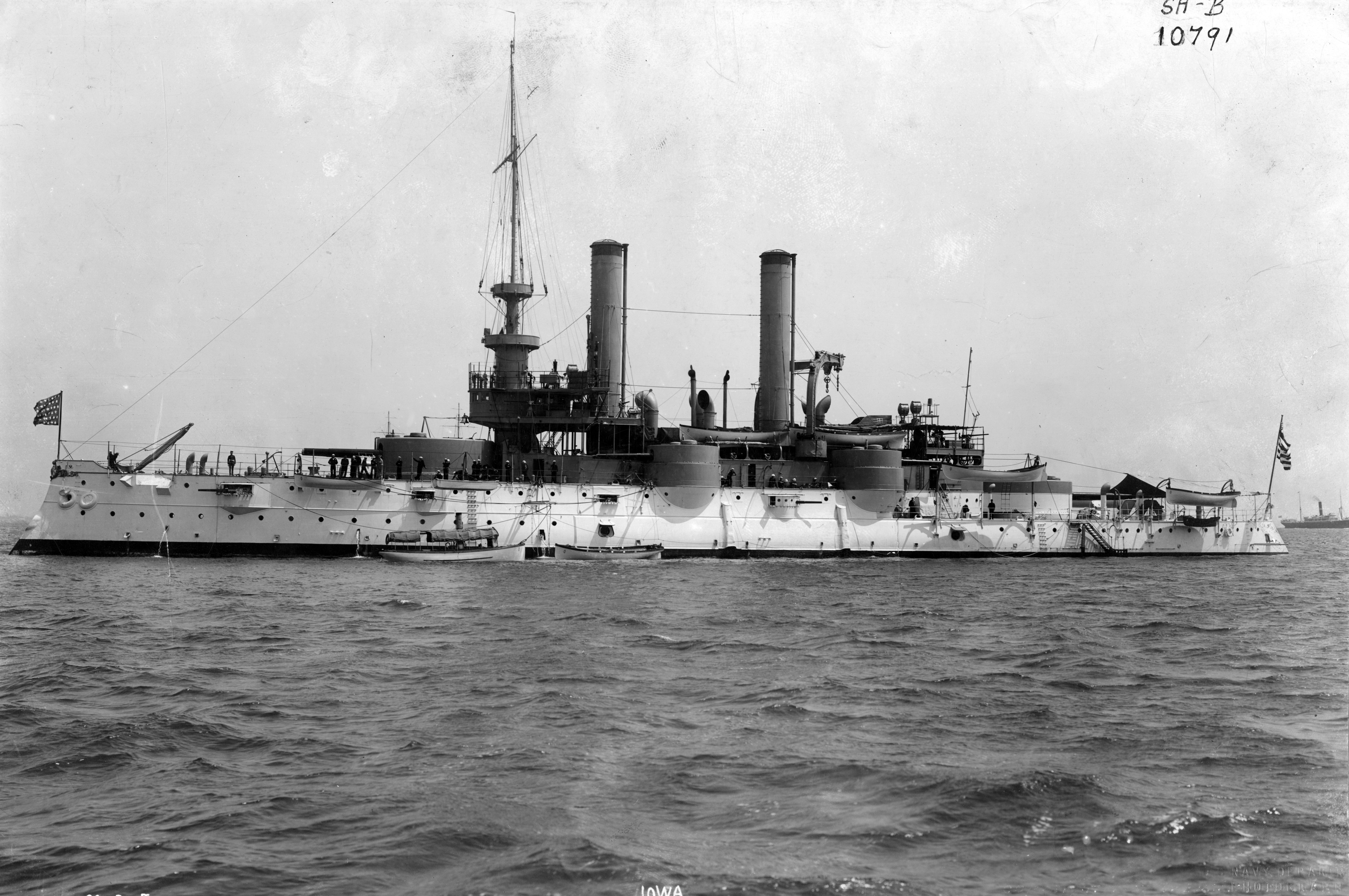 (Battleship # 4) In a harbor, circa the early 1900s. U.S. Naval History and Heritage Command Photograph.